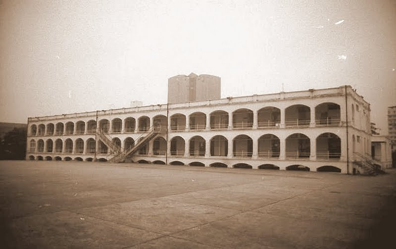 Gun_Club_Hill_Barracks2